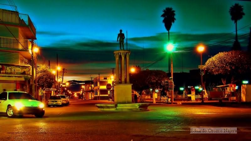 Al atardecer